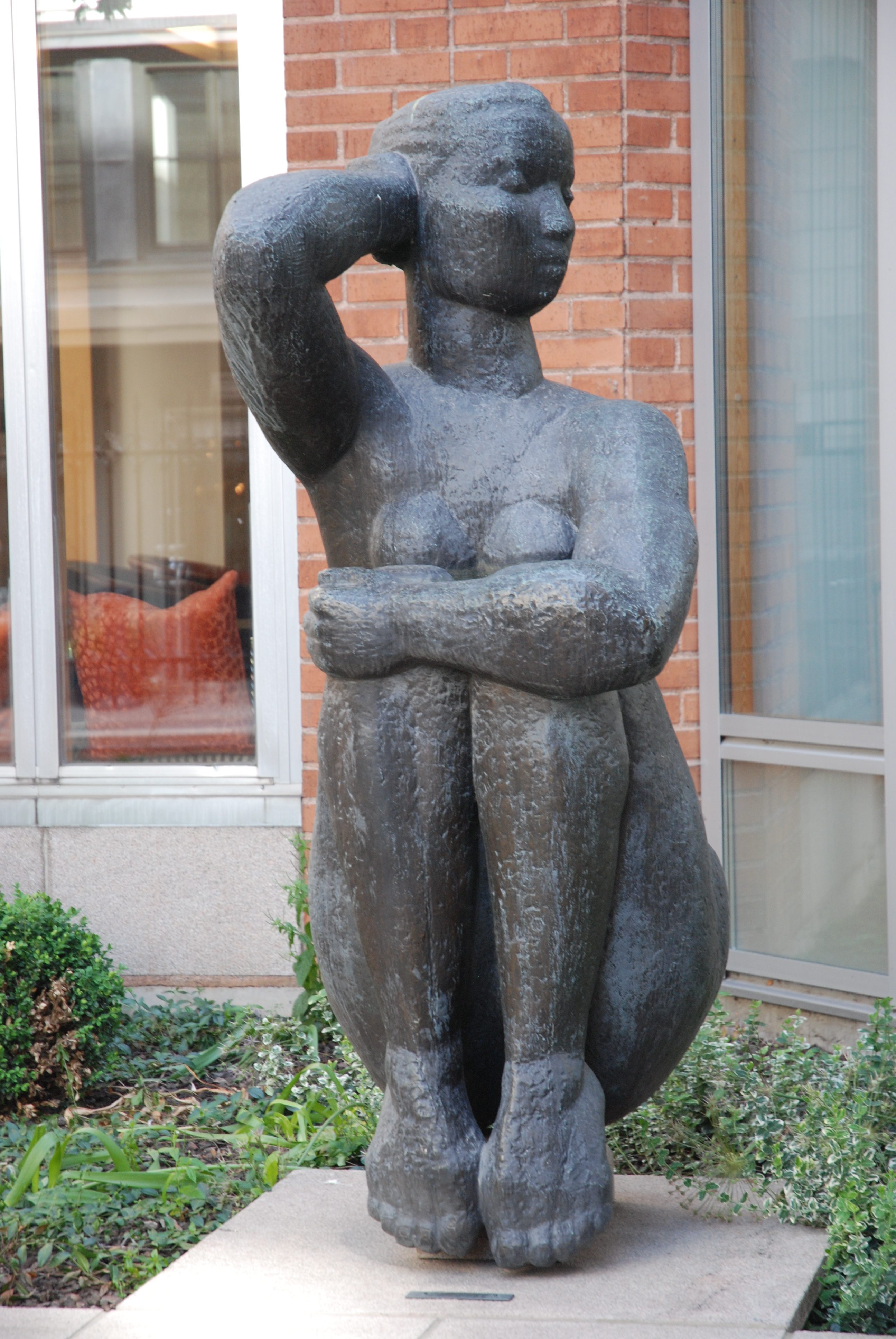 Liss Eriksson´s Elaine (Elaine II) outside SAF office building at Blasieholmen in Stockholm, Sweden